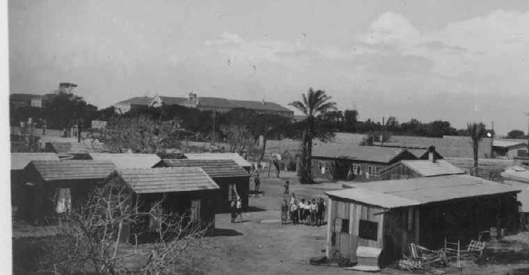 The early kibbutz center